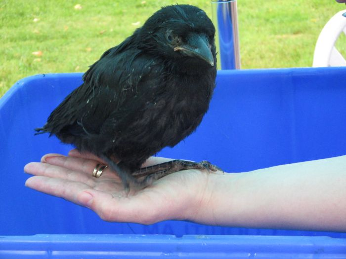 Fledgling Northwestern Crow that fell or was knocked out of tree after a Red-tailed Hawk killed another crow. I let him go later, he was ok. Vancouver area.